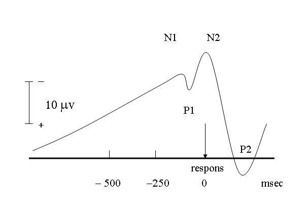 Schematische afbeelding van MRP componenten. N1= readiness potential (ook Bereitschaftspotential genoemd), P1= premotor positivity, N2= motor potential, P2= reafferent potential